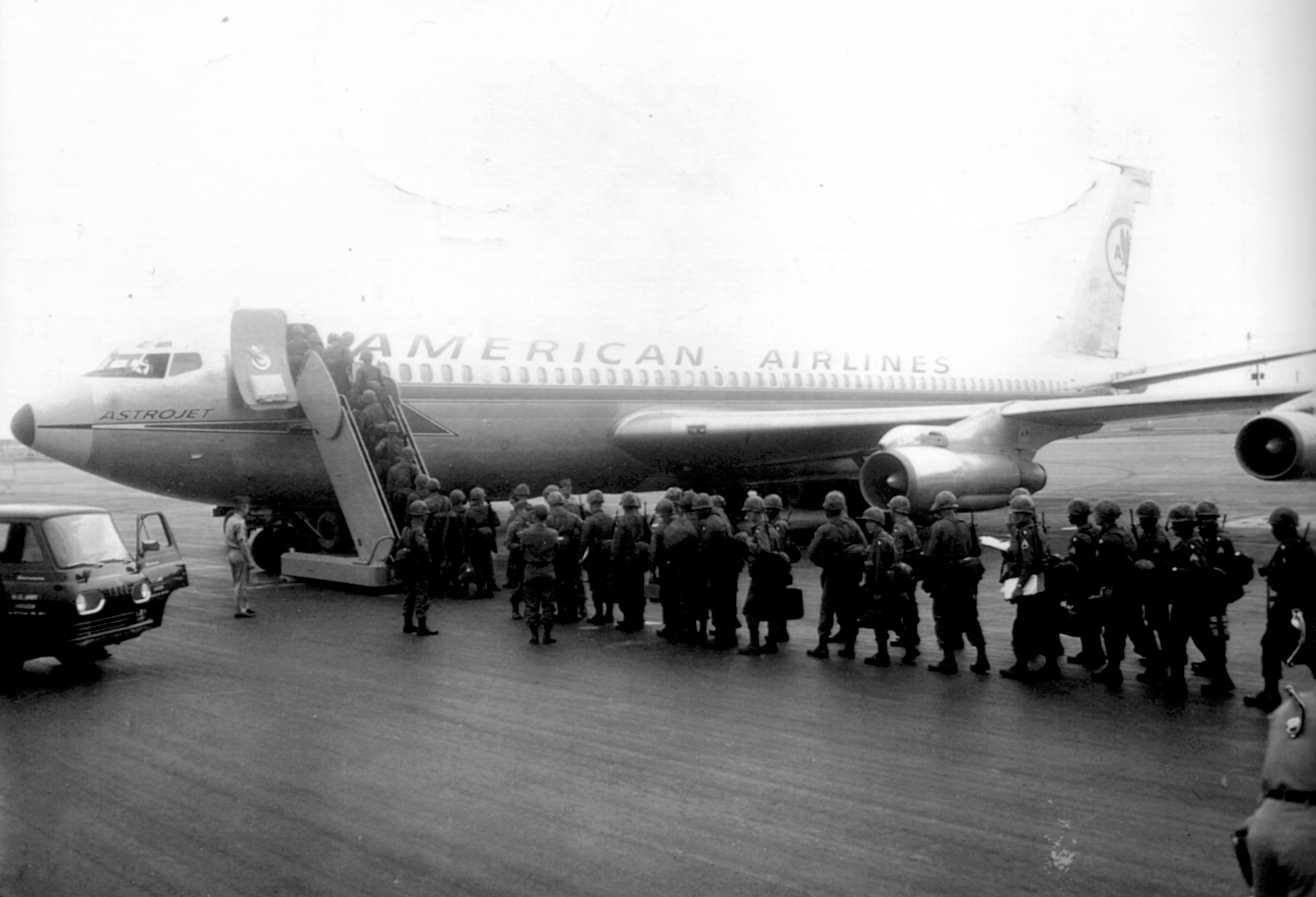 American Airlines Astrojet Boeing 707 boarding members of the 101st Airborne Division leaving for the Vietnam War at Campbell Army Airfield, Fort Campbell, Kentucky in June 1966.